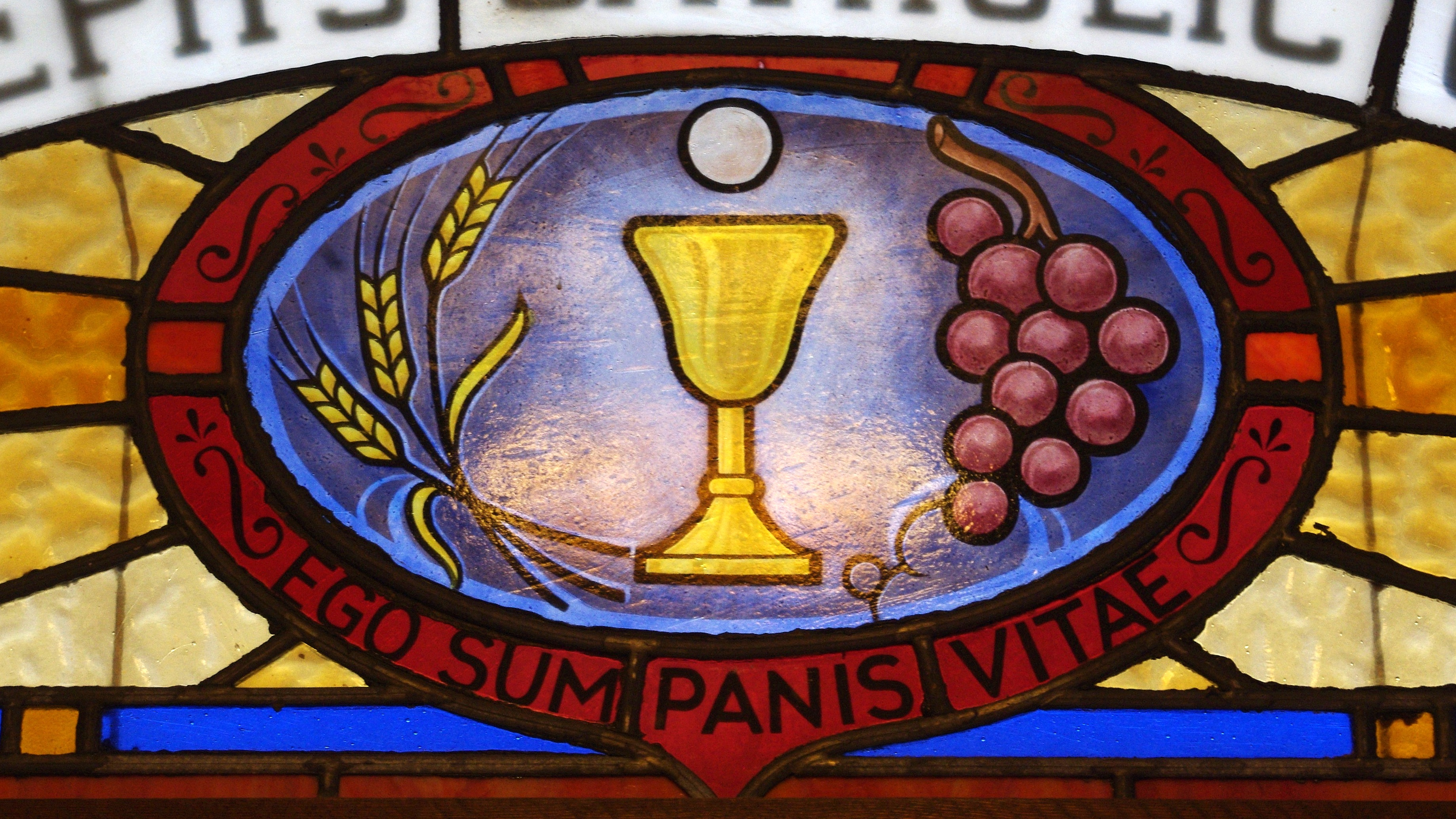 Saint Joseph's Catholic Church (Central City, Kentucky) - stained glass, portal tympanum detail, I AM the bread of life